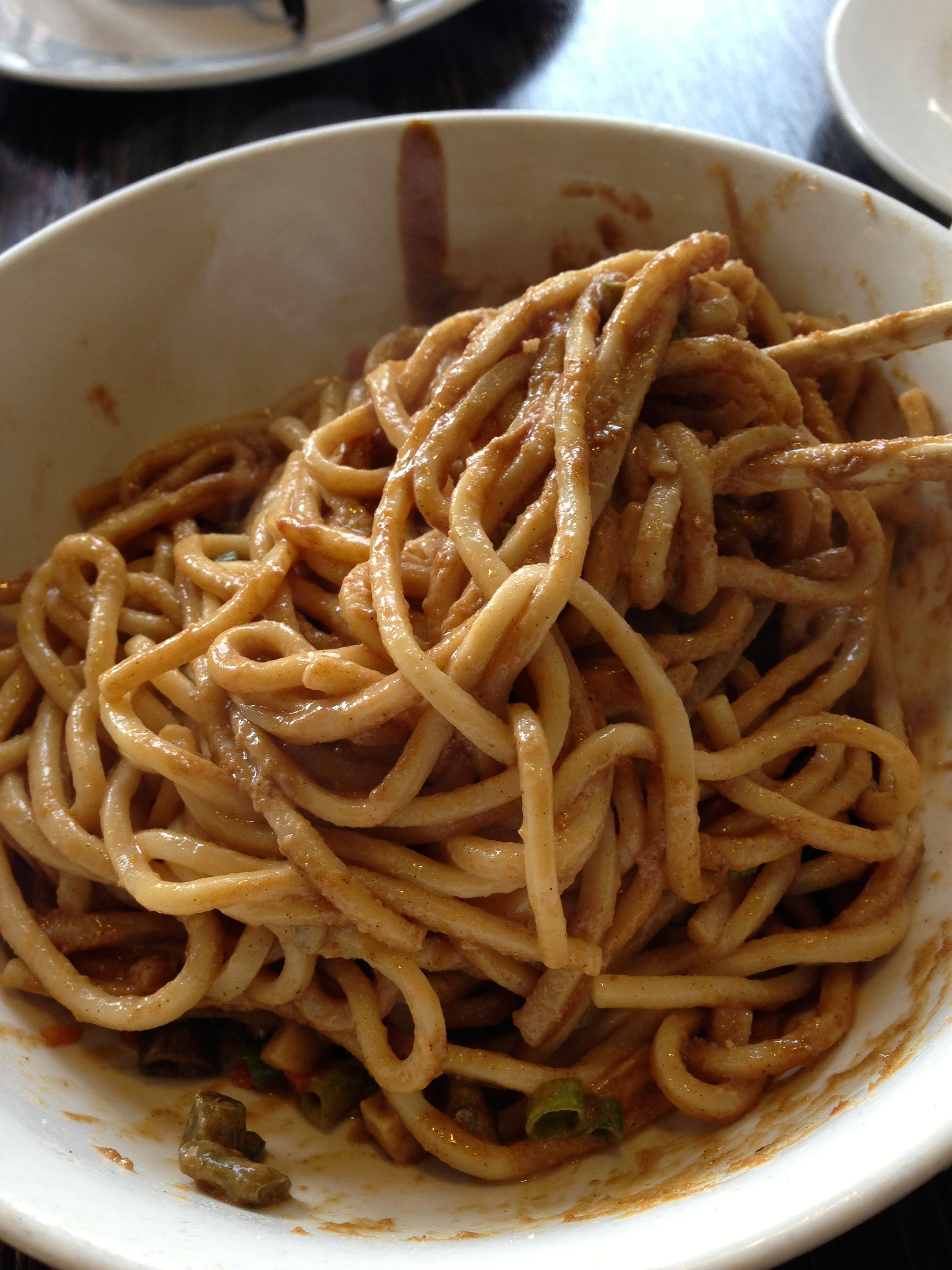 Hot Dry Noodles stirred